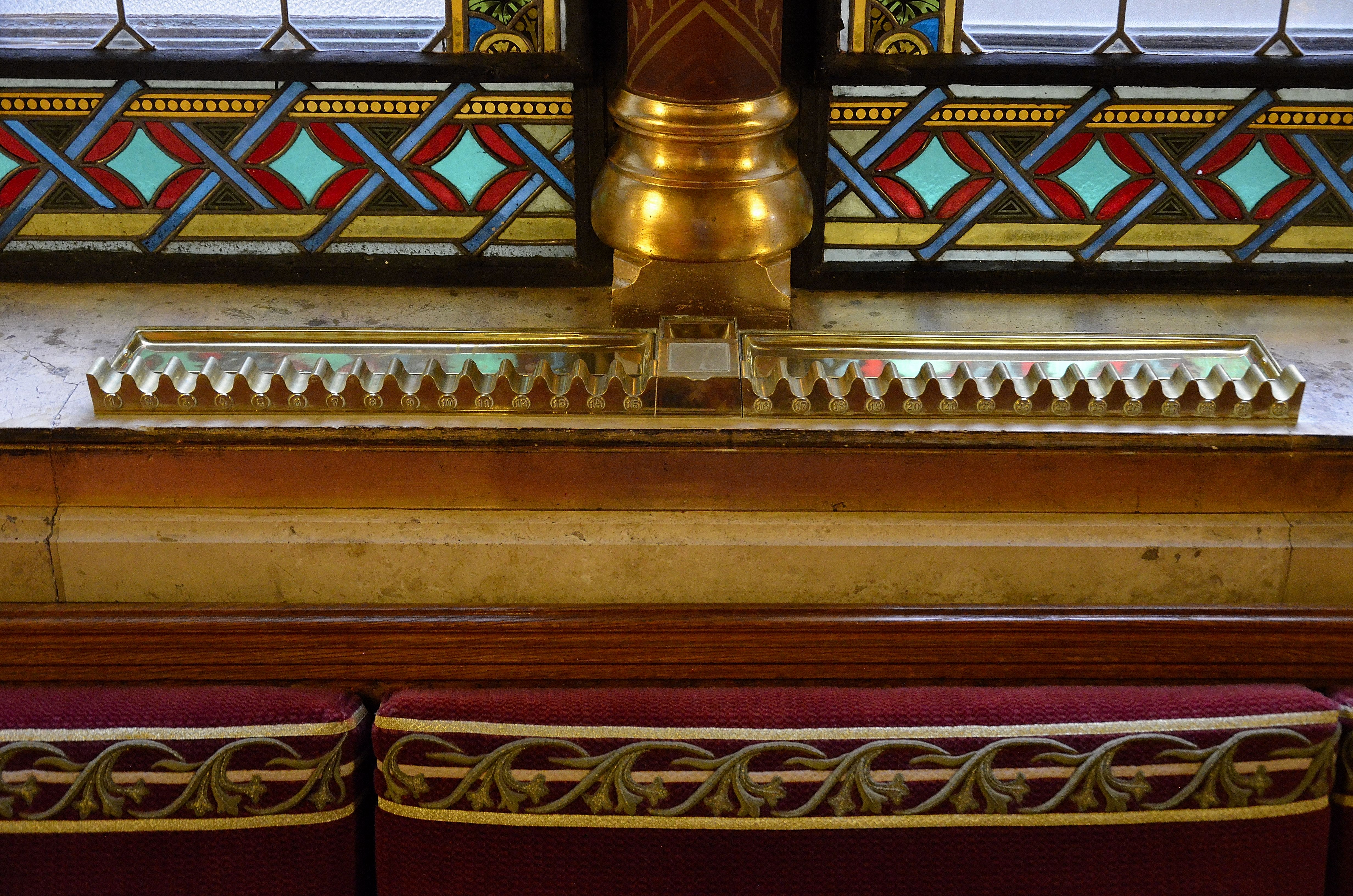 Ashtray with numbered cigar places in Hungarian Parliament Building